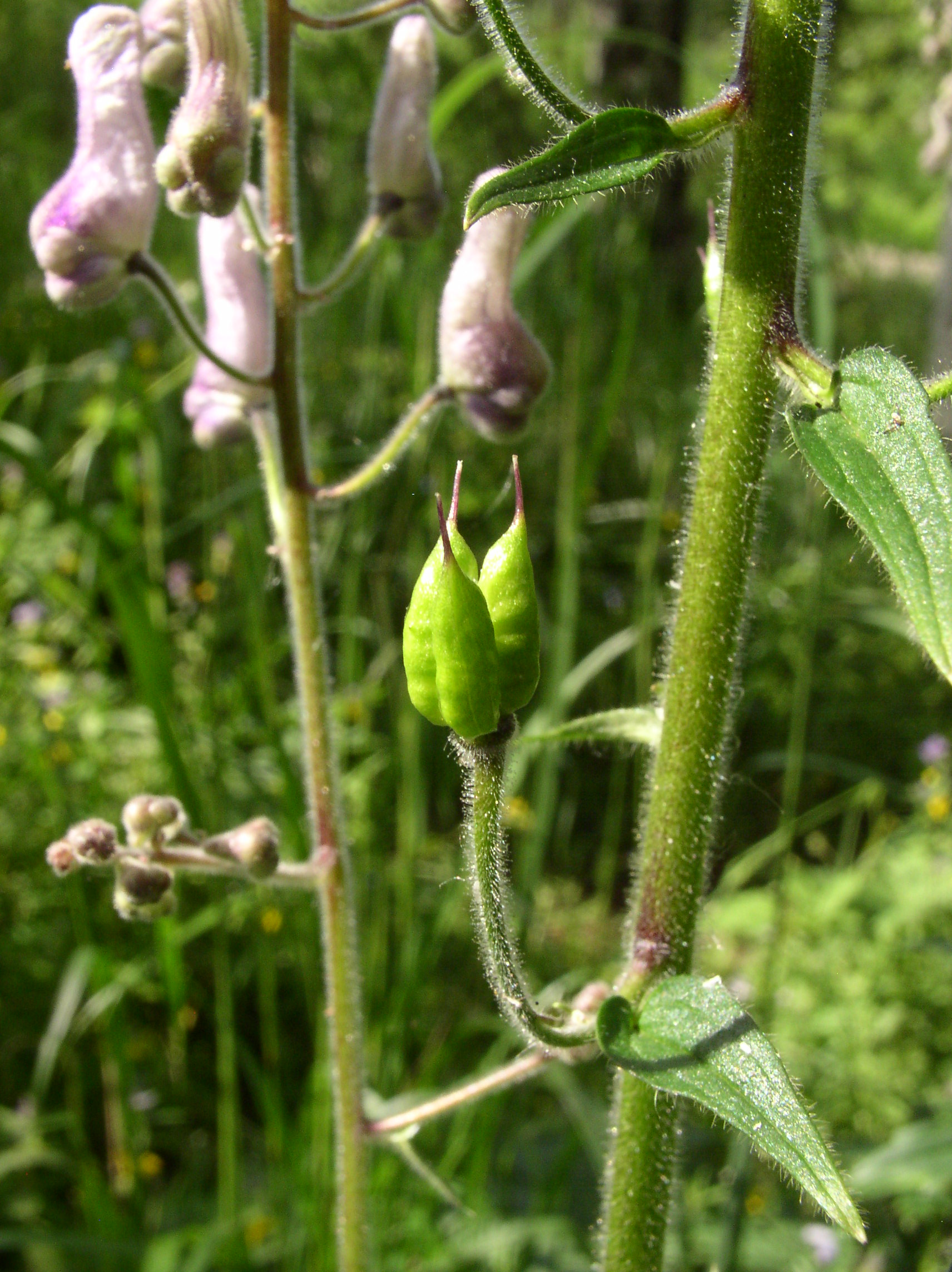 Aconitum lycoctonum (or Aconitum septentrionale) fruit in Kitee, Finland.